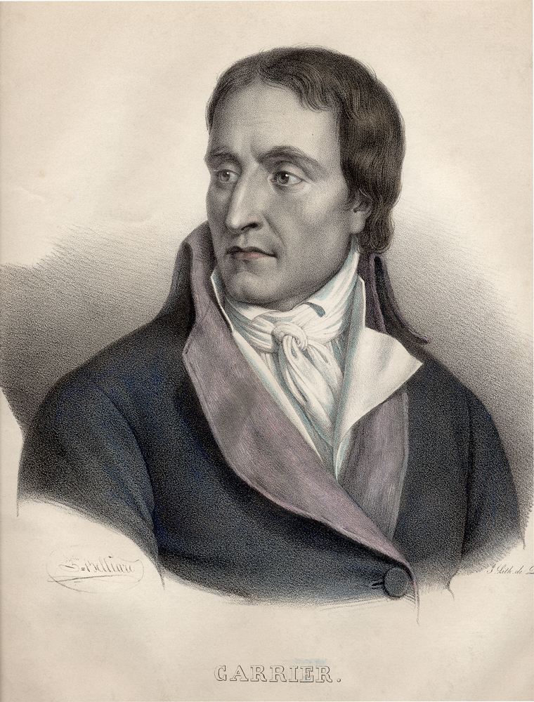 Portrait of Jean-Baptiste Carrier, French revolutionary